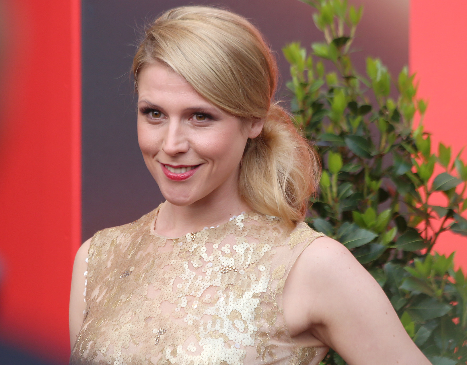 Franziska Weisz at the Romy film awards (Hofburg Imperial Palace in Vienna)